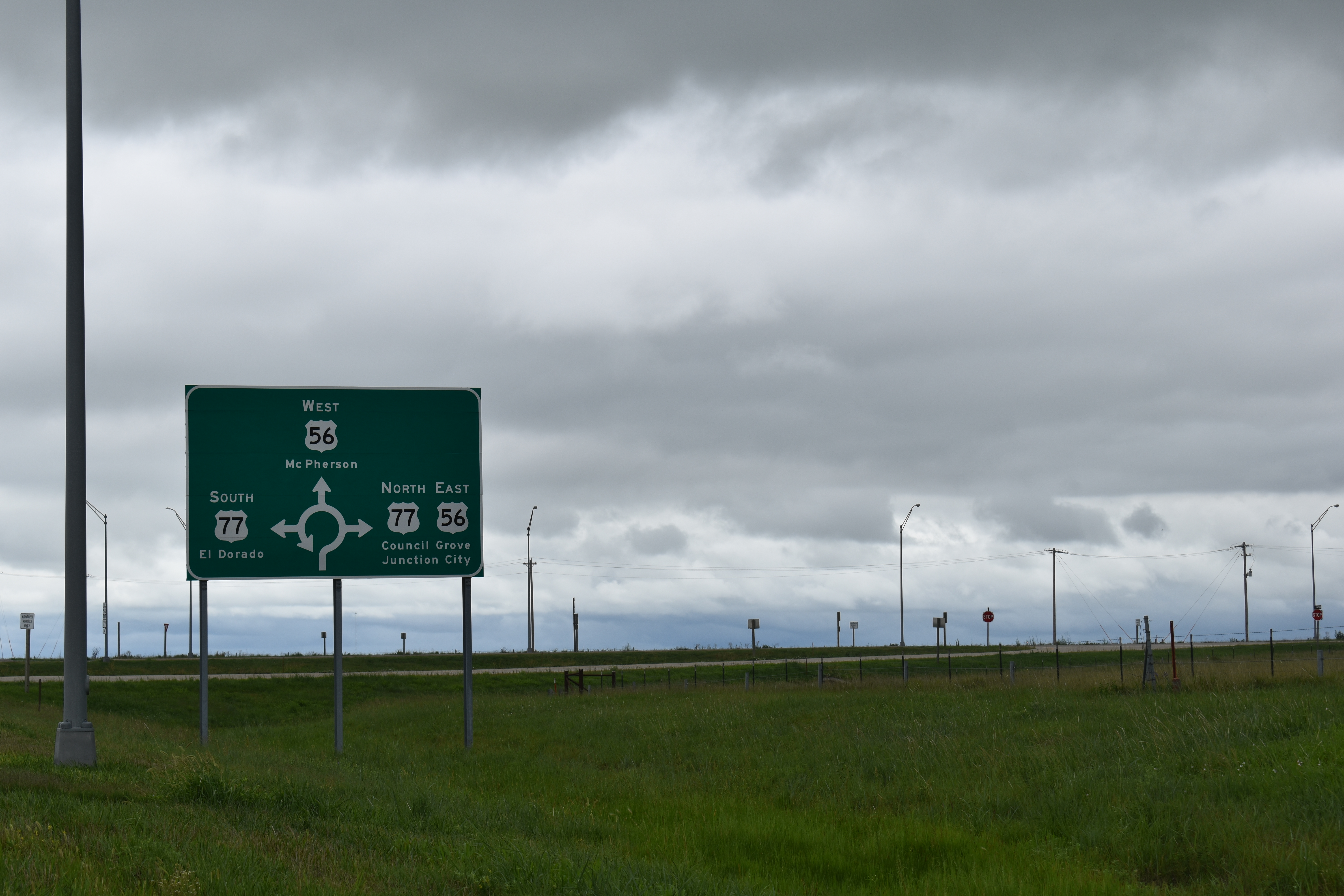 K-150 sign at its western terminus